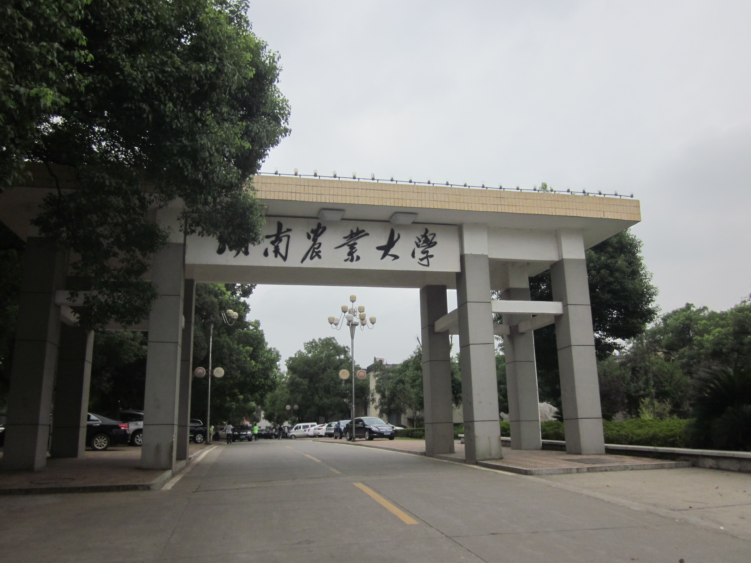 Hunan Agricultural University (Chinese: 湖南农业大学 pinyin: Húnán Nóngyè Dàxué, commonly referred to as HAU or Nongda) is a public research university located in Changsha, Hunan, China.